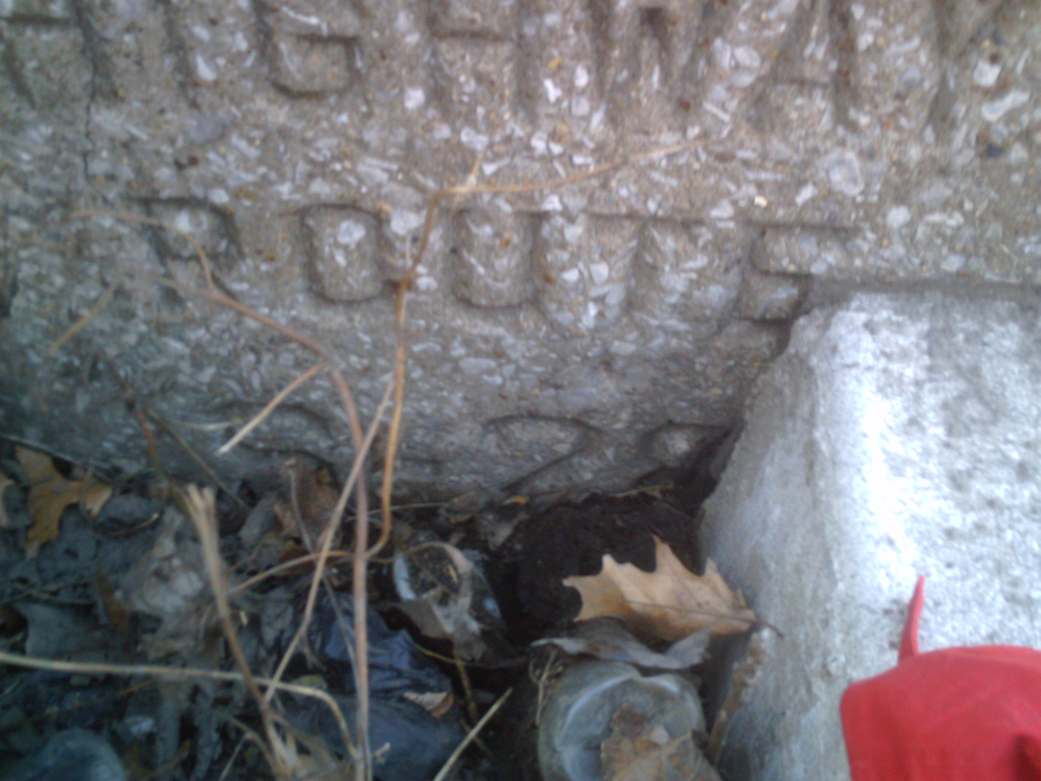 An indentation on Route 18 Northbound over Westons Mill Pond denoting State Highway Route S-28, the highway's former designation.